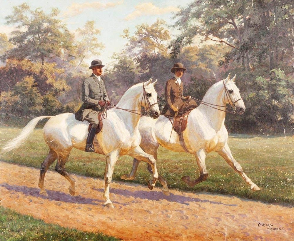 Equestrian Scene